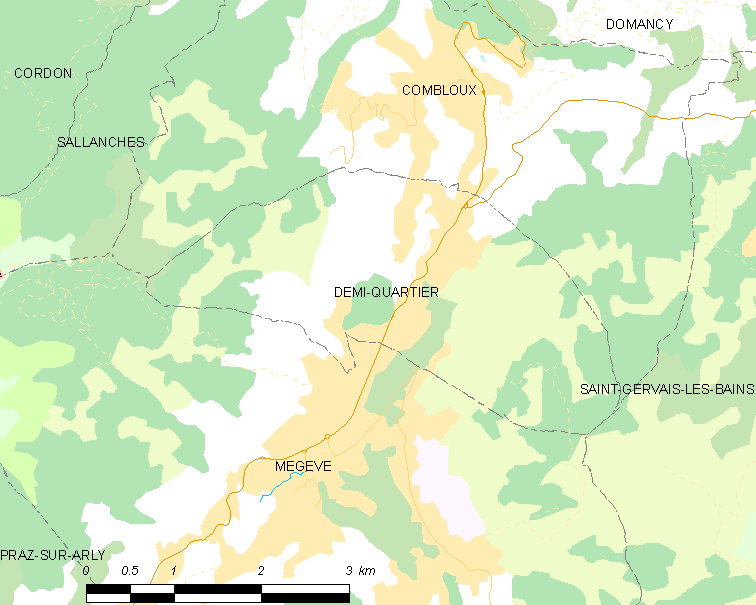 Map of French municipality Demi-Quartier